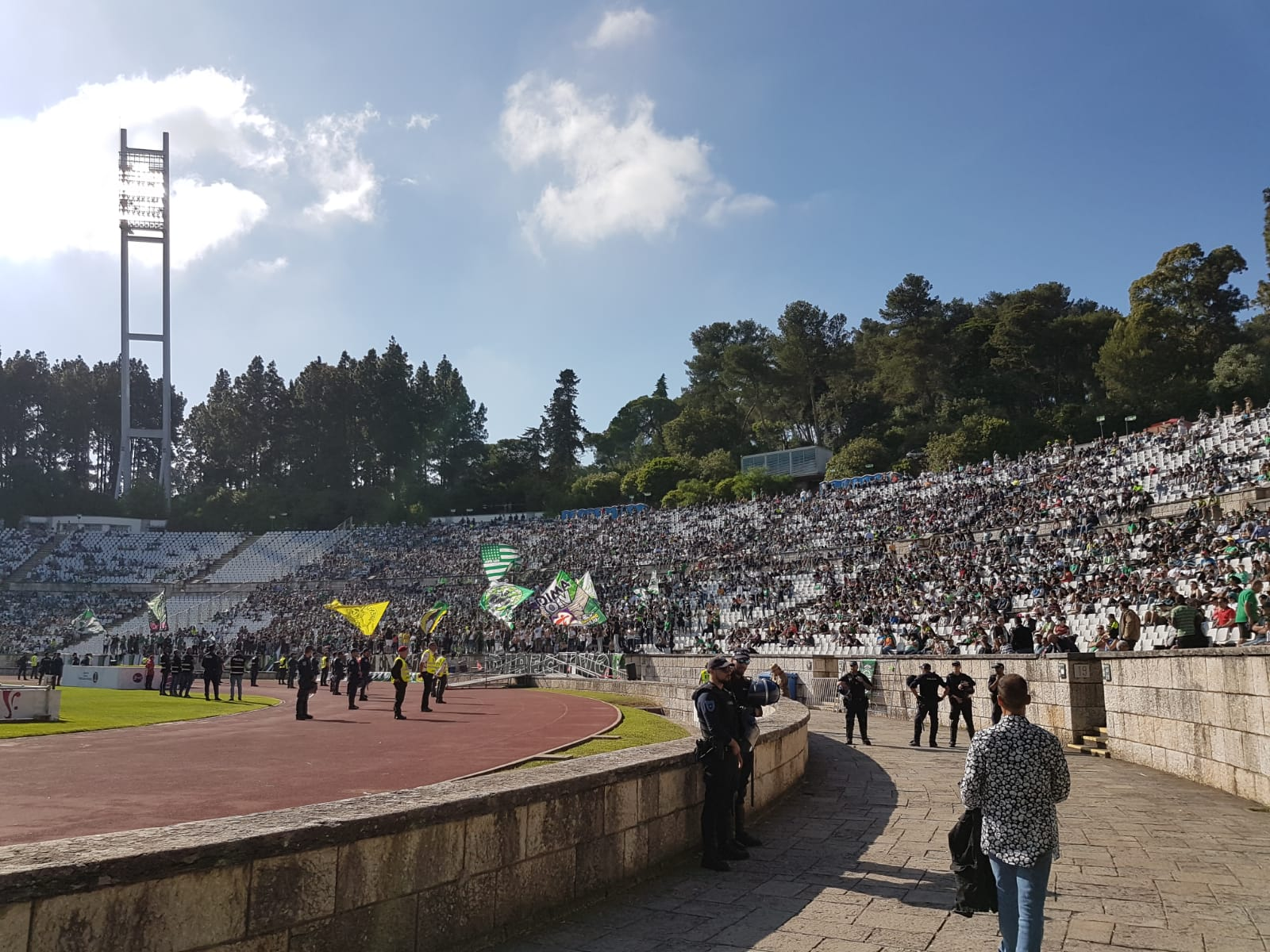 Sporting Clube de Portugal supporters at the 2017–18 Women's Portugal Cup Final